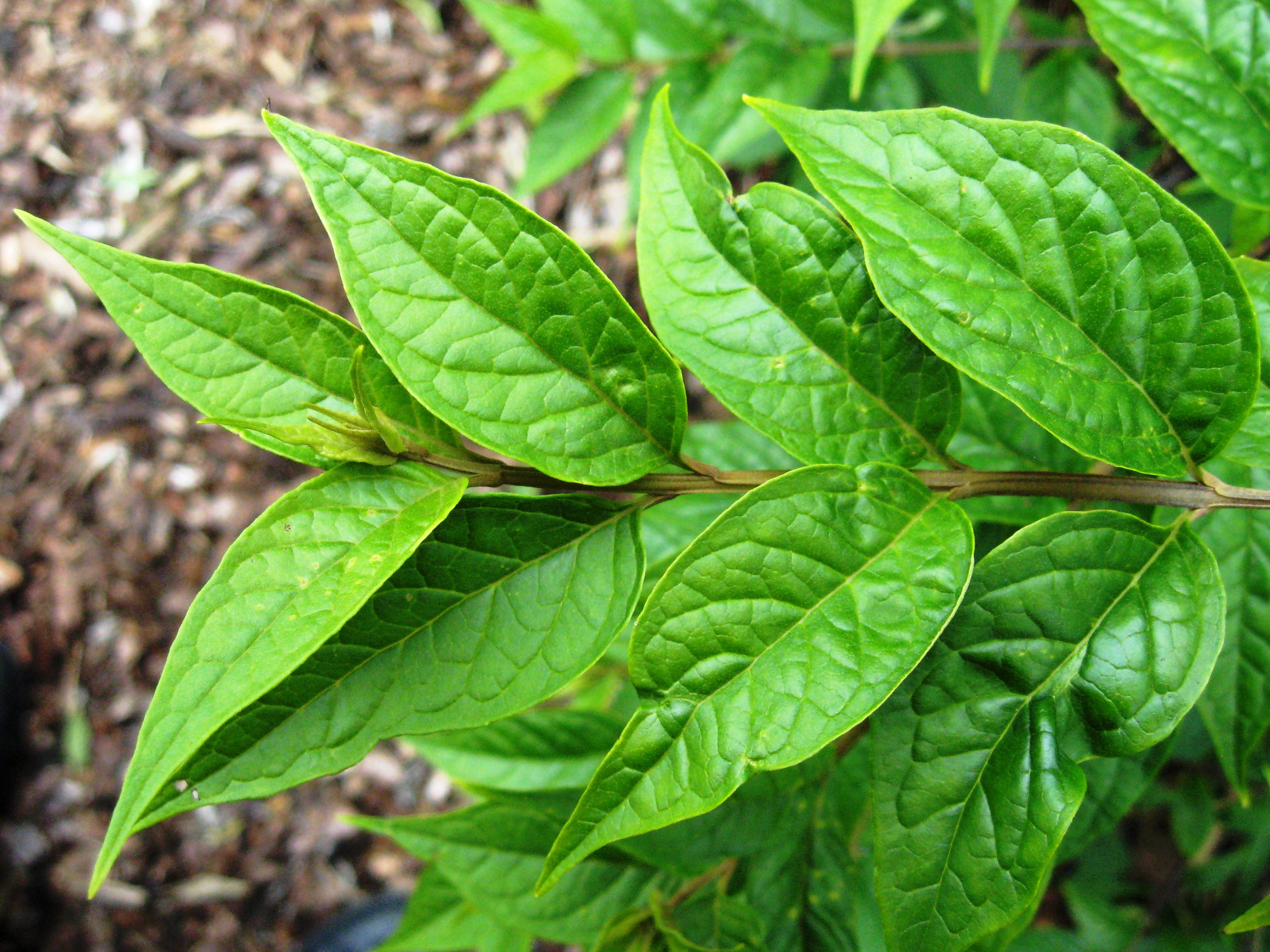 Photo of foliage, Longstock Park Nursery, Hampshire